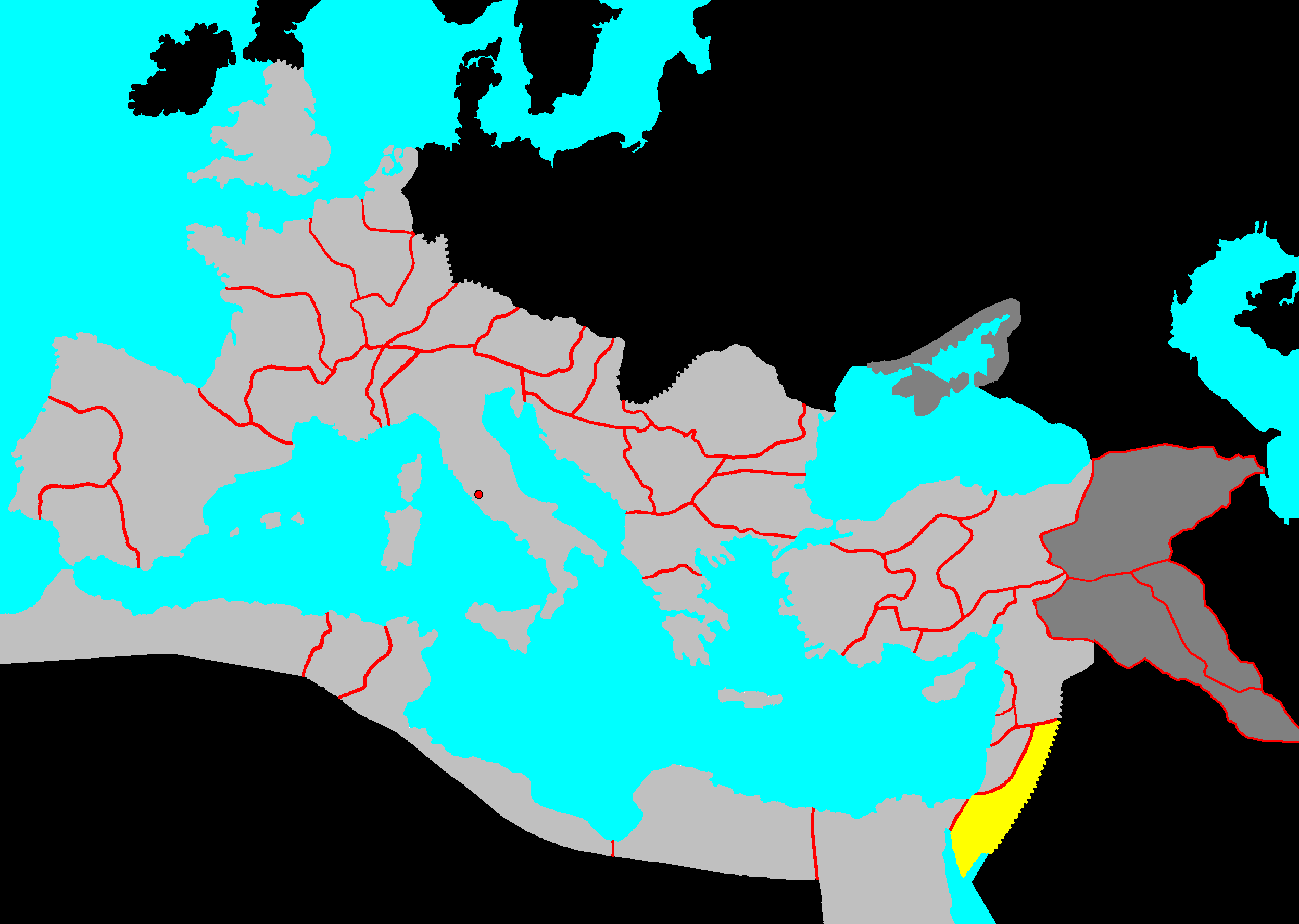 Description: provinces of the Roman Empire (Imperium Romanum) Source: own work Date: December 2005 Author: --Immanuel Giel 12:43, 13 December 2005 (UTC) Other versions: none